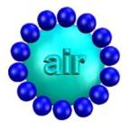 First generation ultrasound contrast agent microbubble